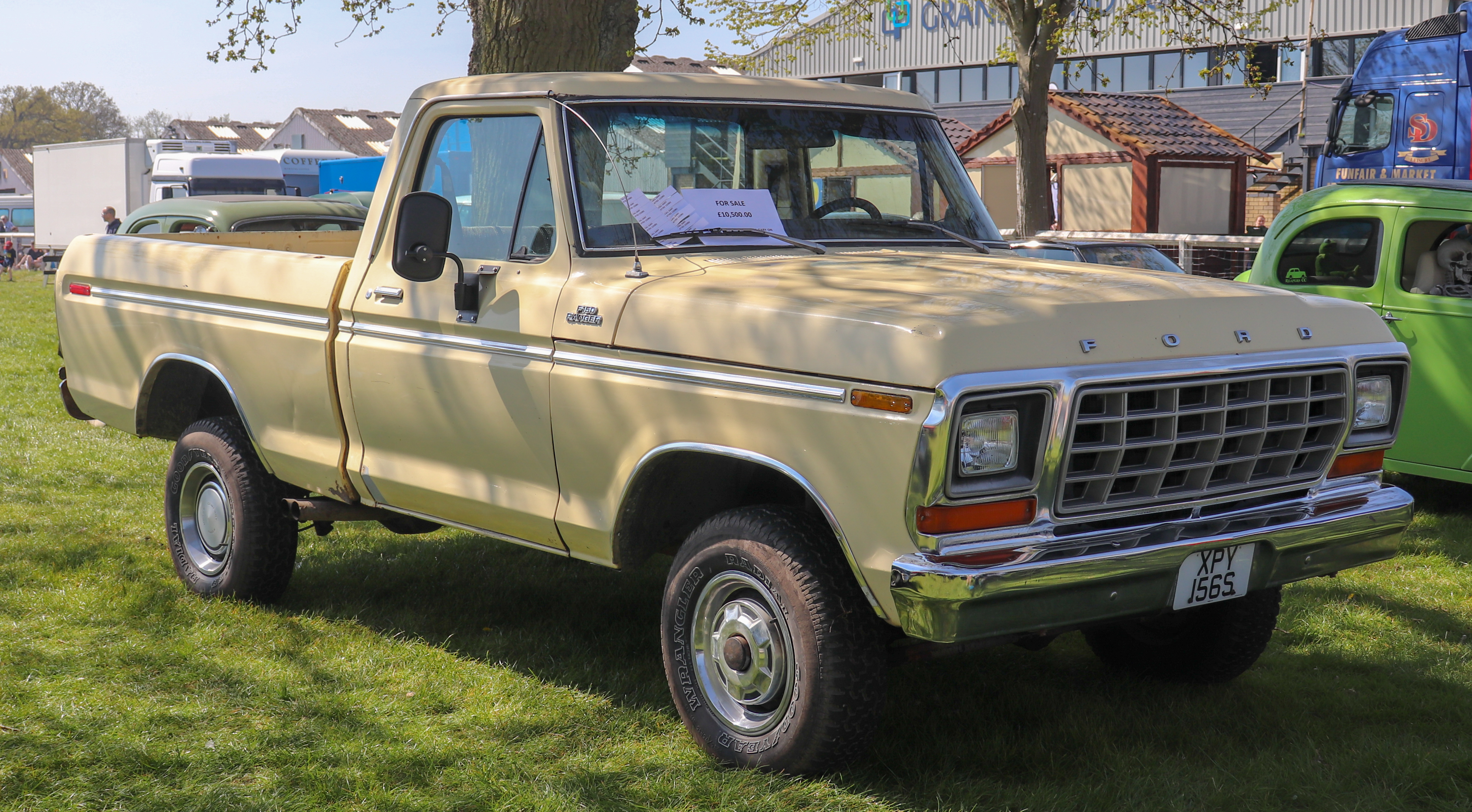 1977 Ford F150 Ranger 4WD 5.9 Front Taken at the Midlands Auto Fest 2019 NAEC Stoneleigh, Stoneleigh, Coventry